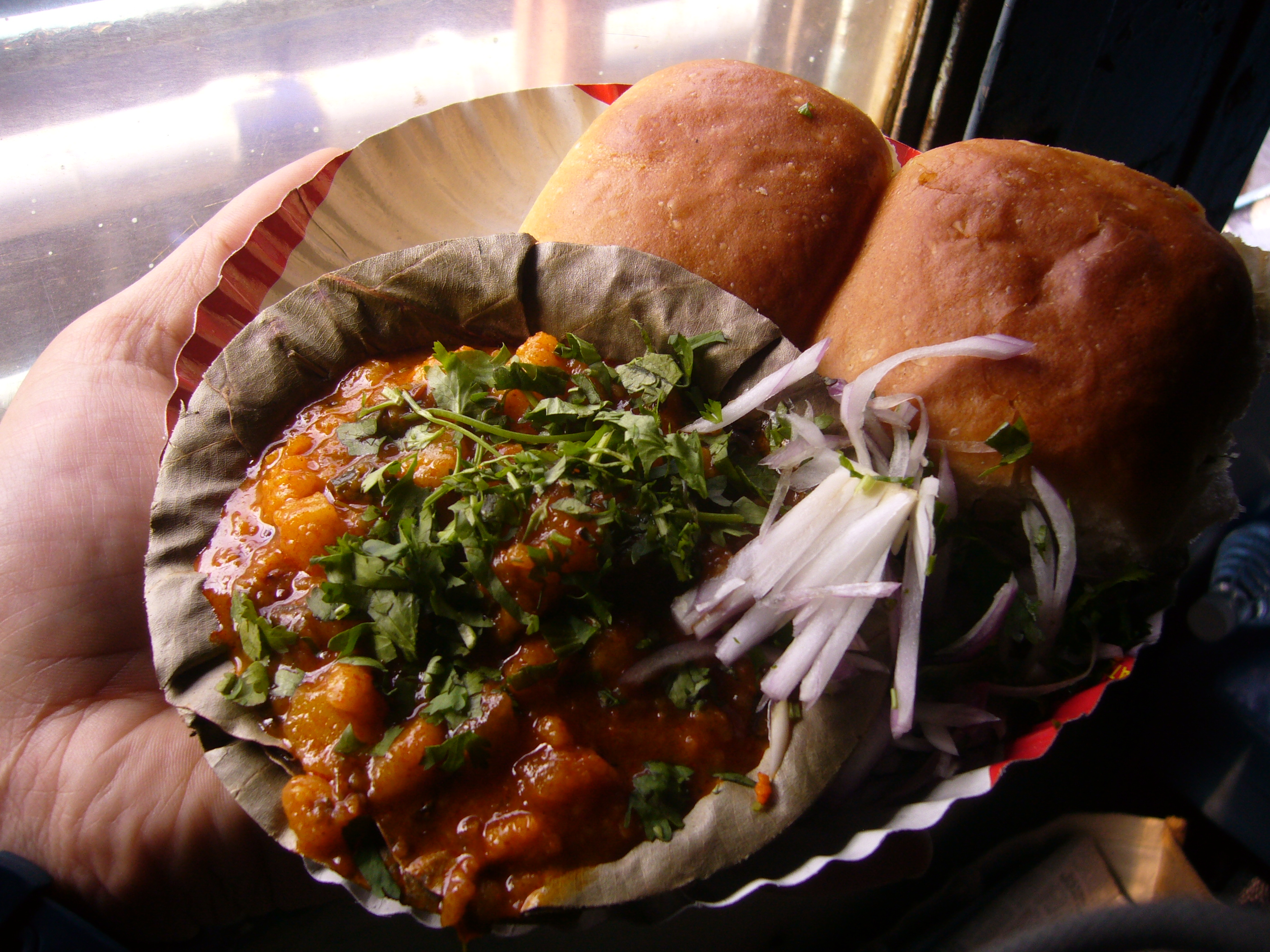 Pav bhaji as served on an Indian train.